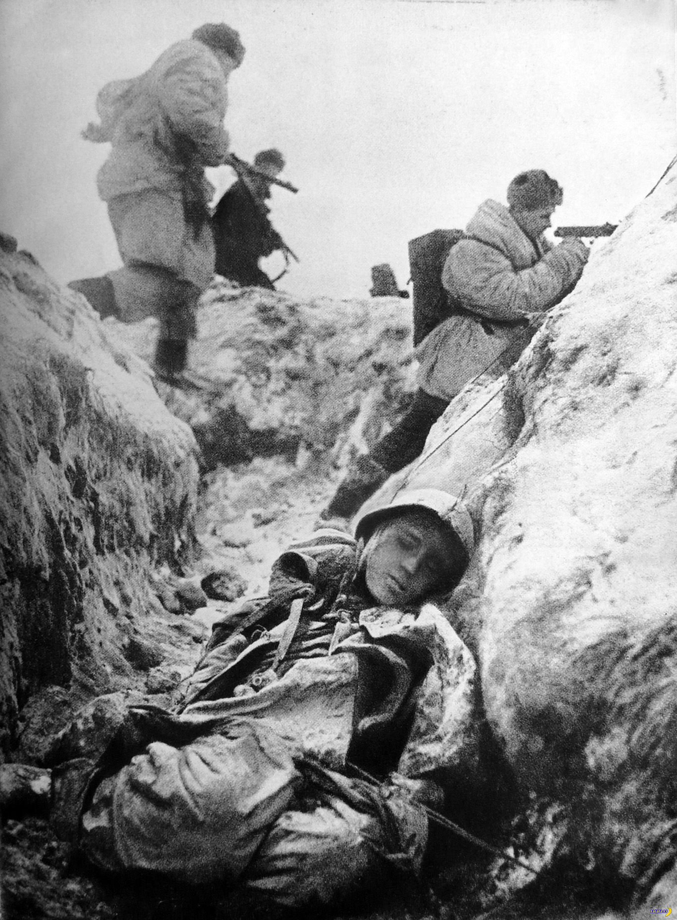 “Start of the assault on the Leningrad front”. Start of the assault on the Leningrad front. 1943. USSR, Leningrad.